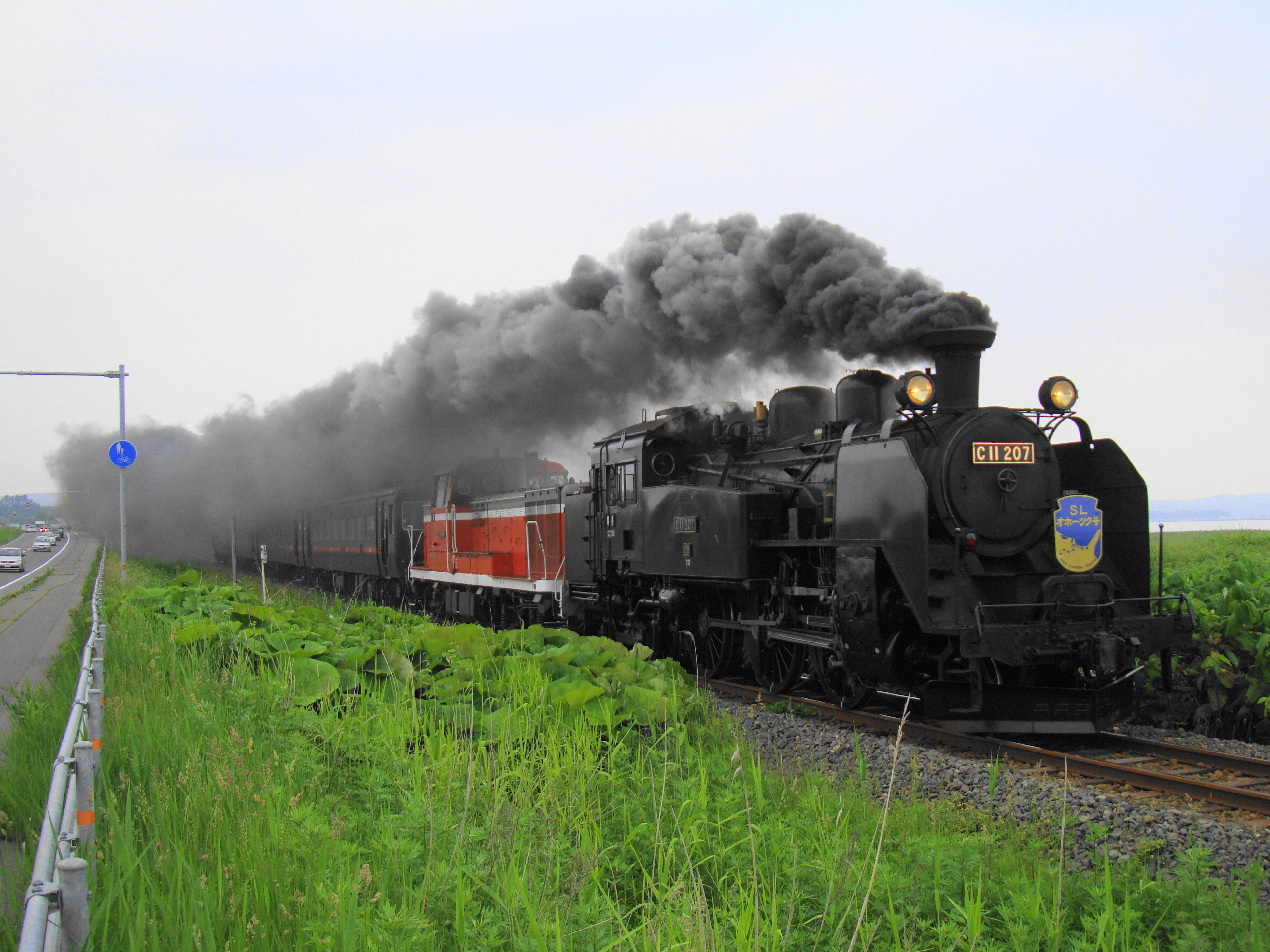 SL Okhotsk